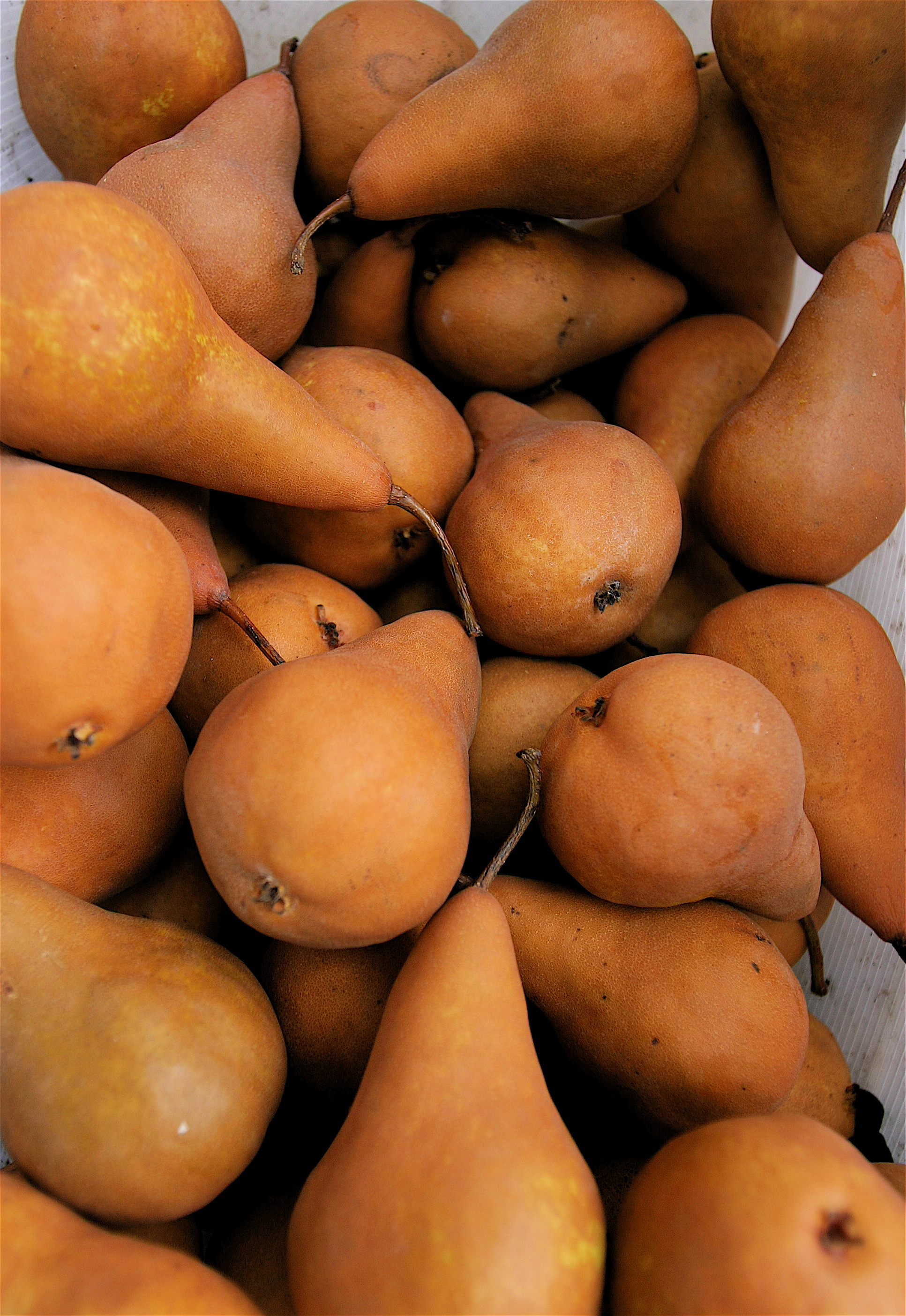 Bosc Pears, from Portland Farmers Market